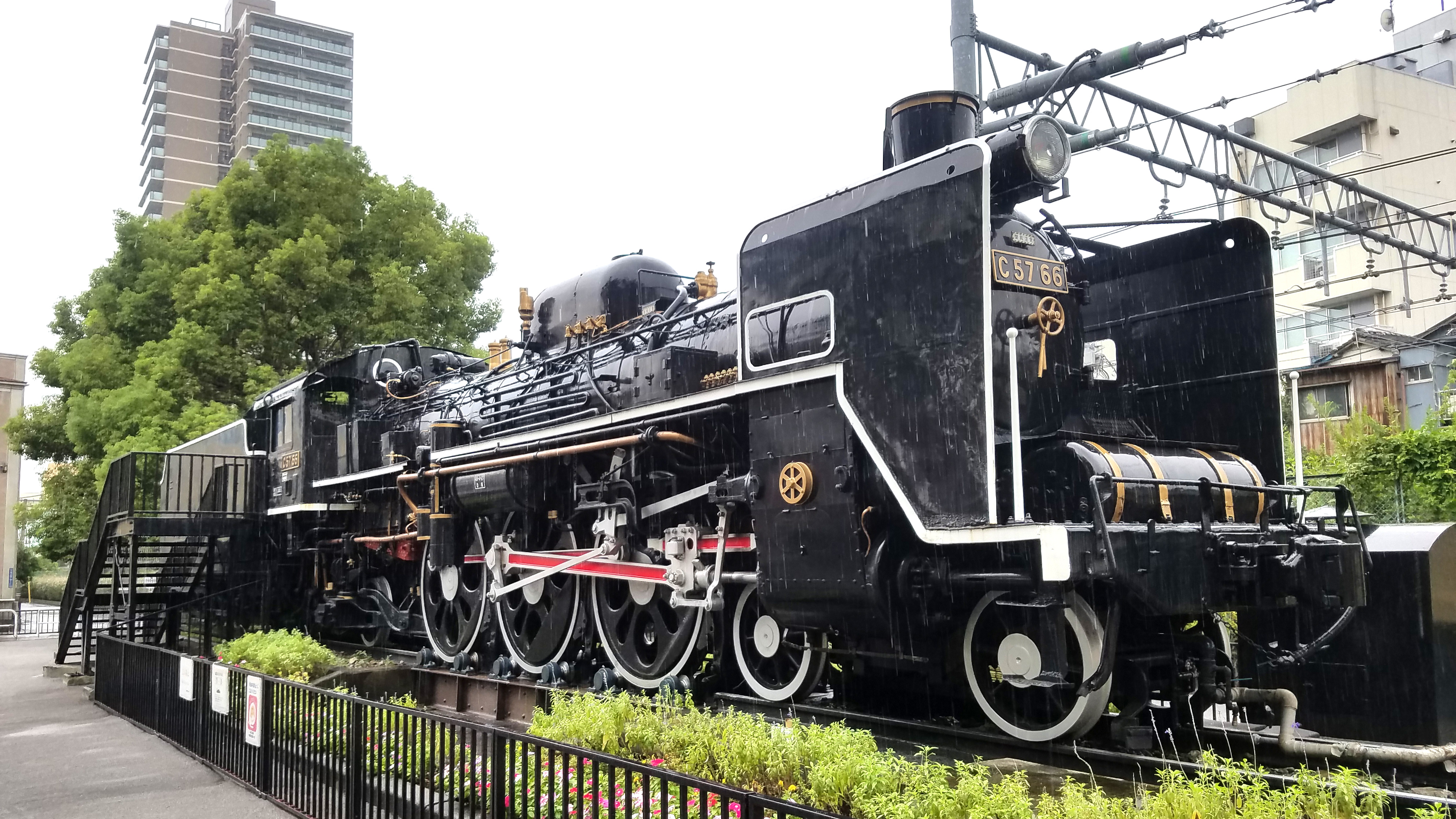 JNR Class Steam Locomotive C57 #66 preserved at the Iriarai Nishi Park in Ota Ward, Tokyo, Japan